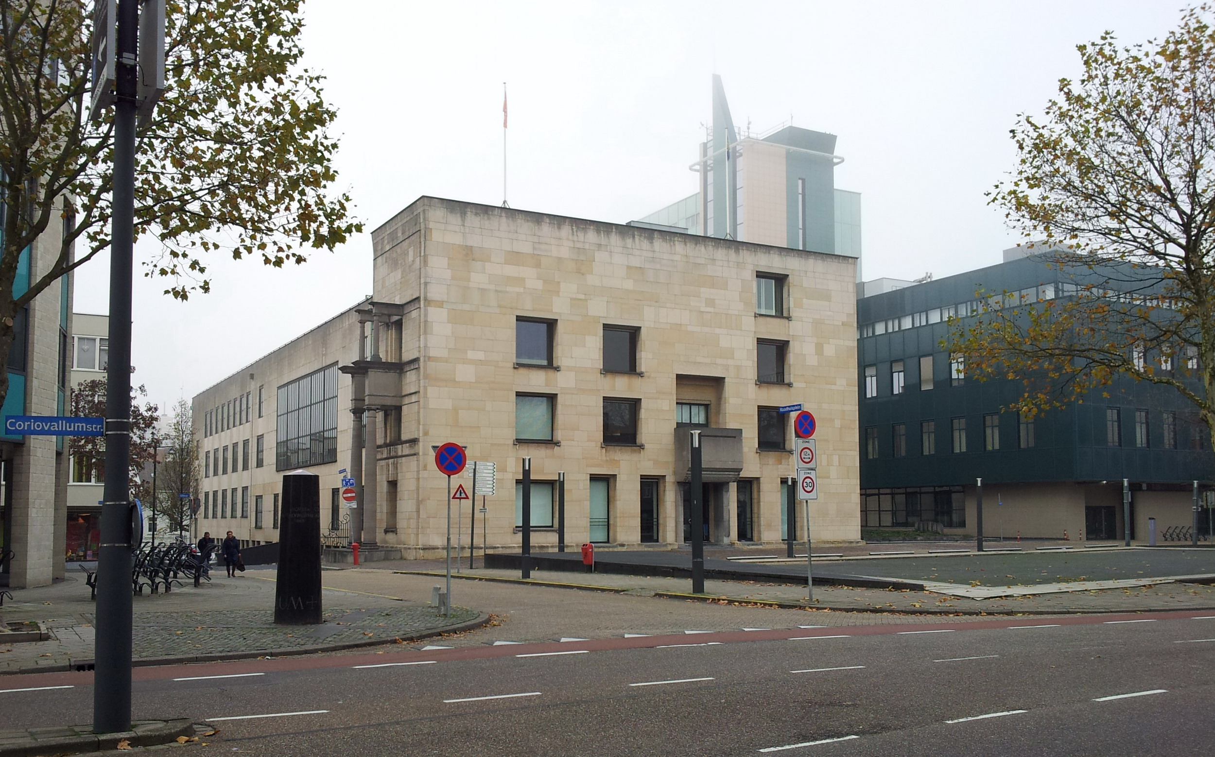 Heerlen, the Netherlands. View of the town hall (raadhuis) of Heerlen, designed by Frits Peutz in 1936.